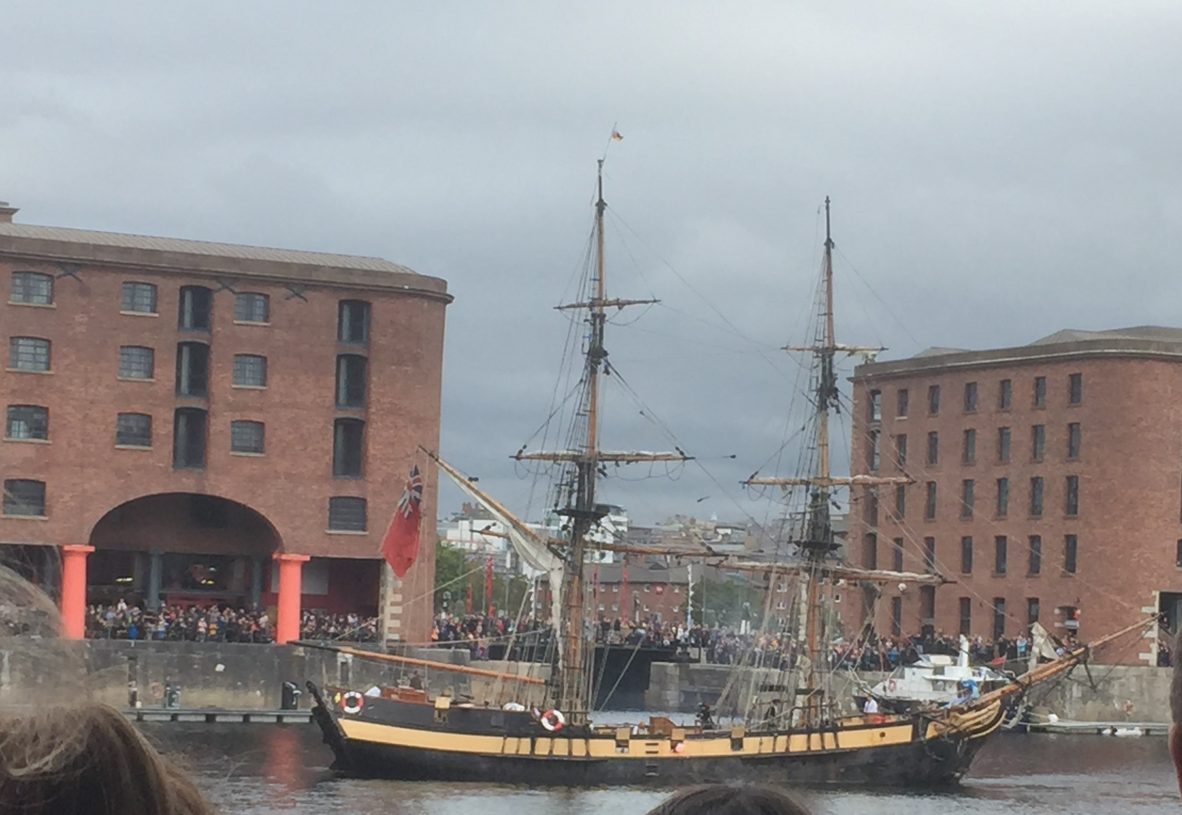 Pirates show reanacments in Albert Docks, Liverpool